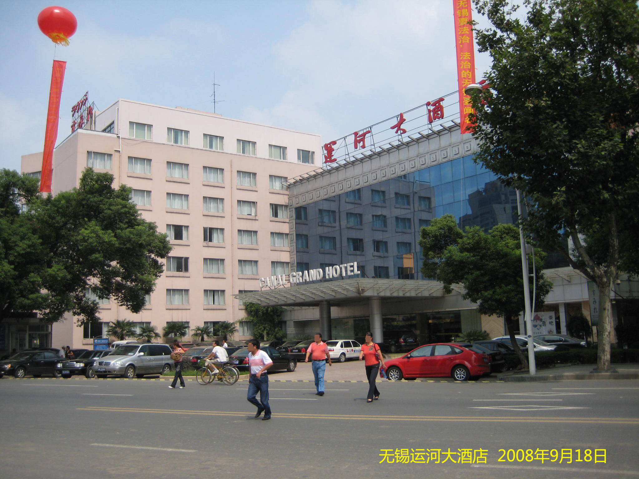 无锡 运河大酒店 Canal Grand Hotel, Wuxi